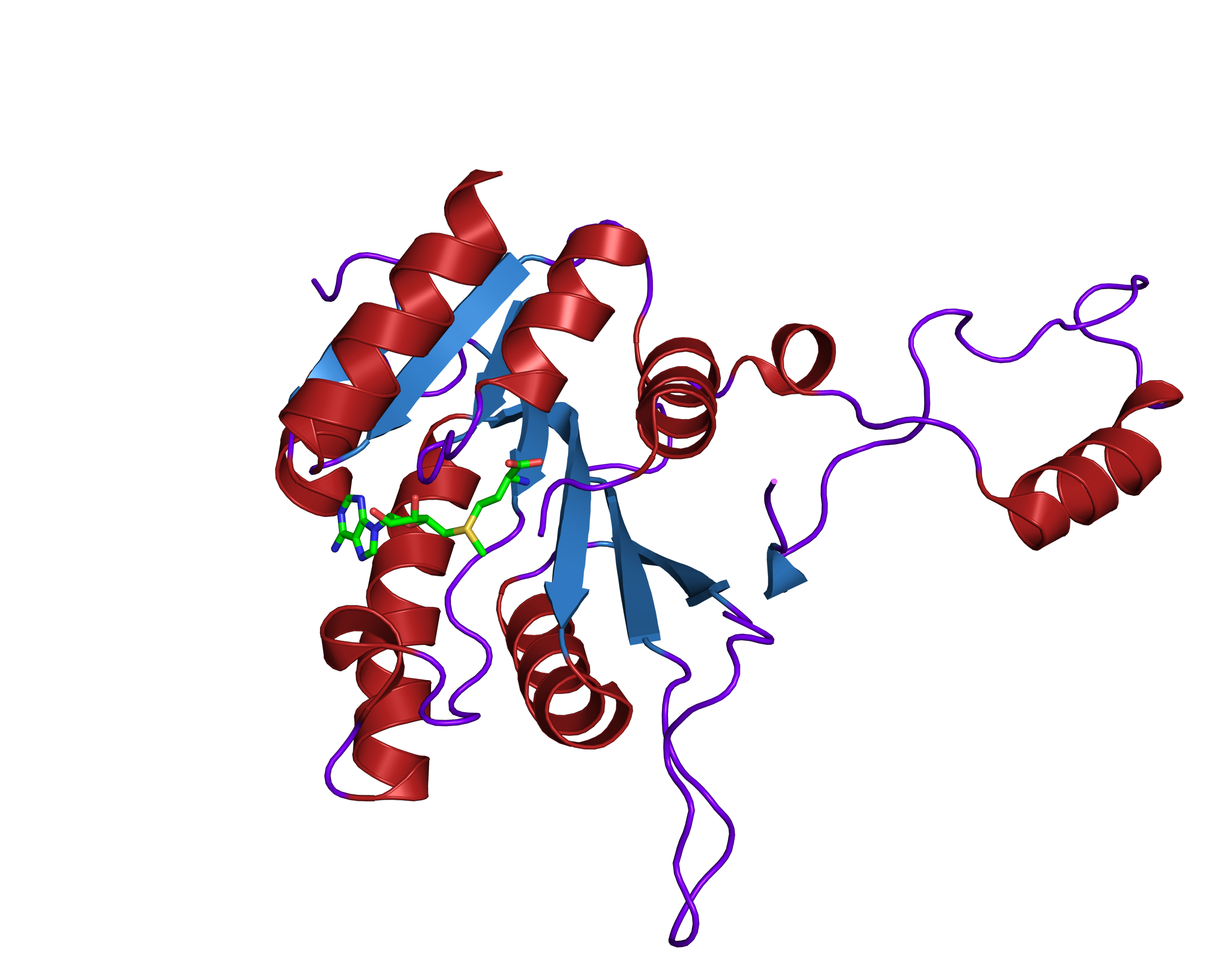 3D structure of protein deposited with PDB code 1g60.